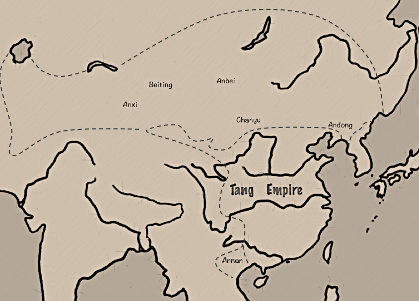 Map of the six major protectorates during Tang dynasty. 中文（中国大陆）: 唐朝的六大都护府示意地图